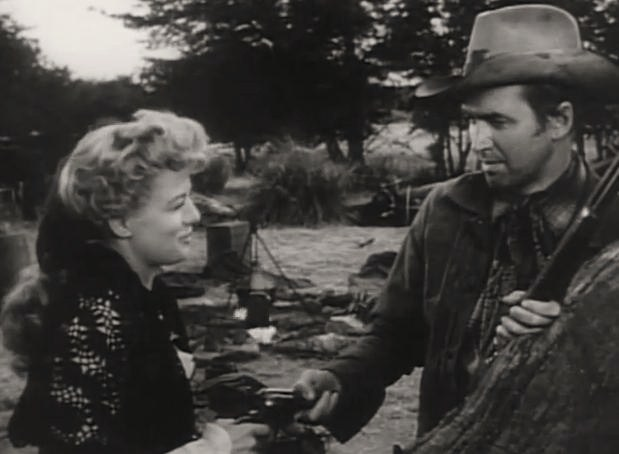 Shelley Winters & James Stewart in Winchester '73 - trailer (cropped screenshot)